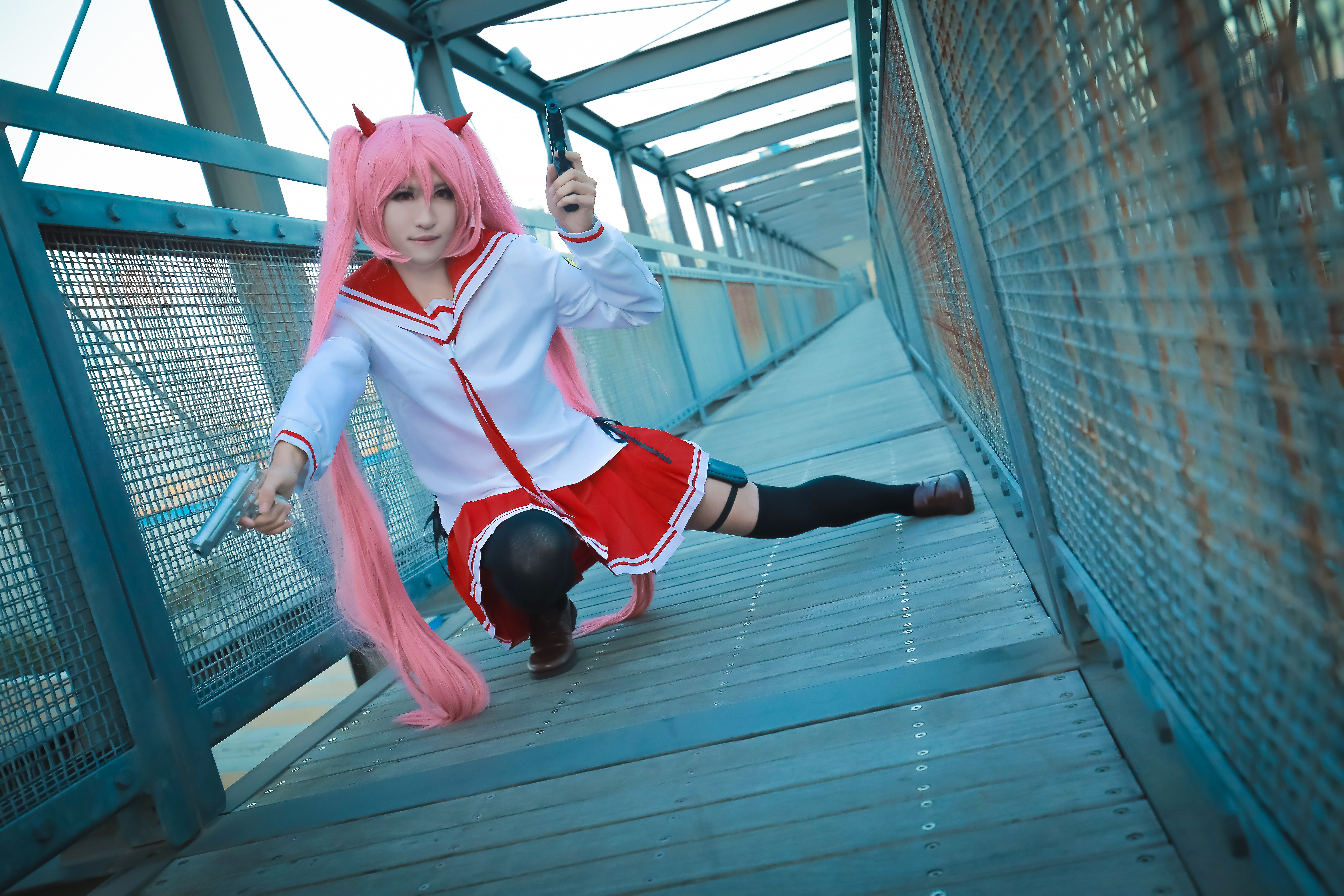 Aria H. Kanzaki from Aria the Scarlet Ammo, cosplay by 結佳梨Yukari and photography by DPS Photography Studio at the Silo Park, Auckland. #ariathescarletammo #crossdressing #crossdress #crossdresser #crossplay #crossplayer #cosplay #cosplayer #nzcosplay #cosplaynewzealand #cosplayboy #cosplaygirl #animeboy #animegirl #伪娘 #女装子 #女装男子 #男の娘 #絶対領域 #コスプレ #アニメ #セーラー服 #kawaii #kawaiicosplay